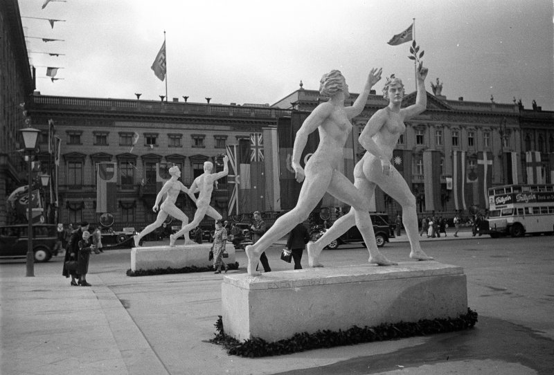 Olympics in Berlin 1936 author: Josef Jindřich Šechtl Uploaded with approval of inheritors of the copyright